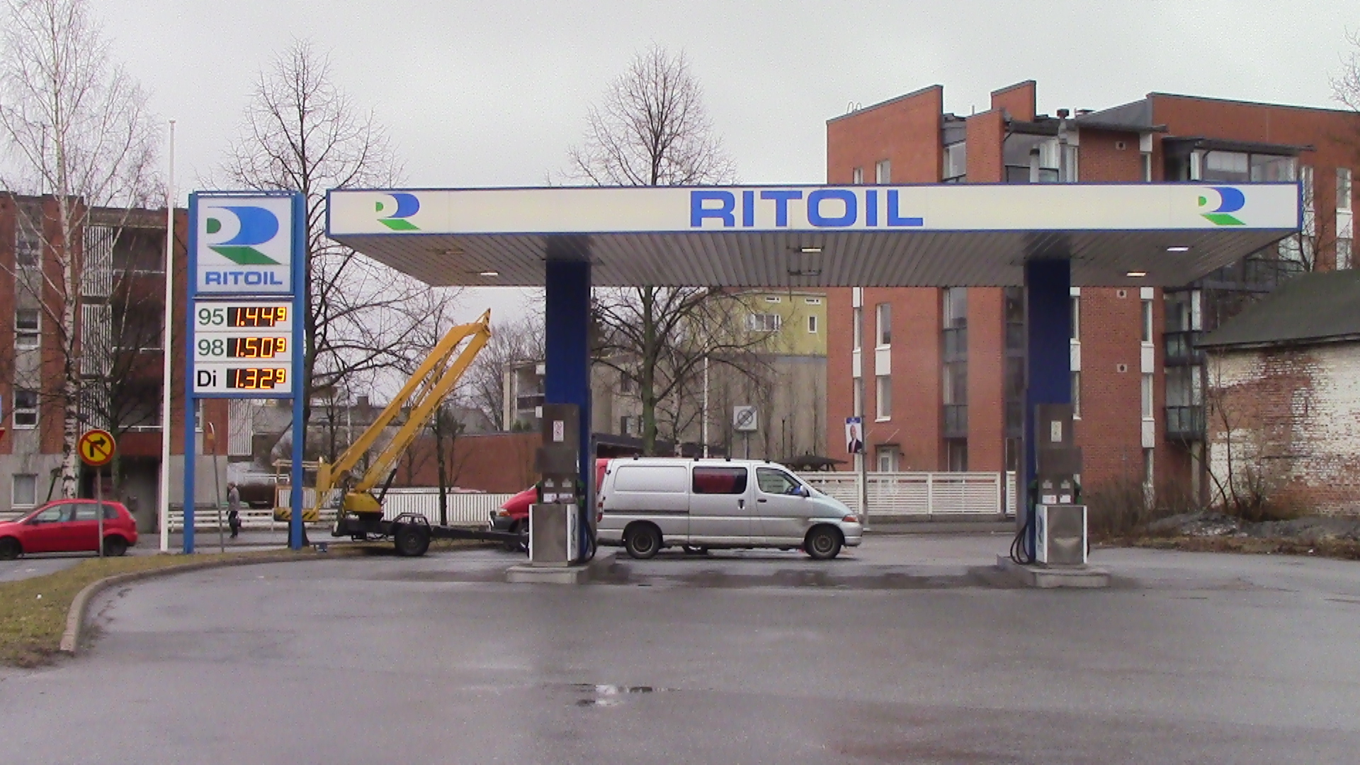 Ritoil fuel station at Pori's downtown, Finland. Ritoil fuel station company is found and owned by Risto Rämä.